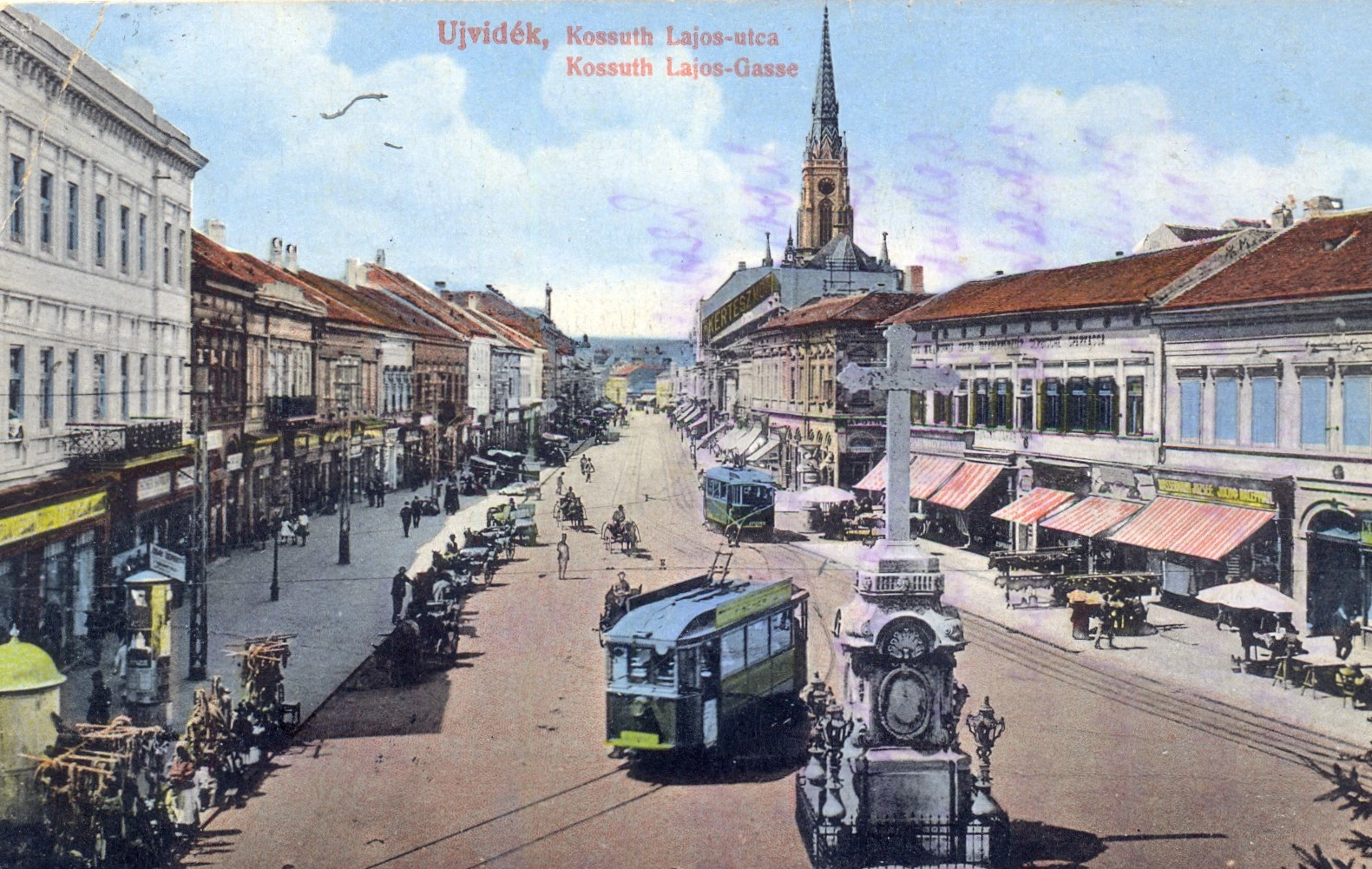 Postcard of Novi Sad with a picture of Lajos Kossuth Street (early 20th century). Srpski (latinica): Razglednica Novog Sada sa slikom ulice Lajoša Košuta (početak 20. veka).